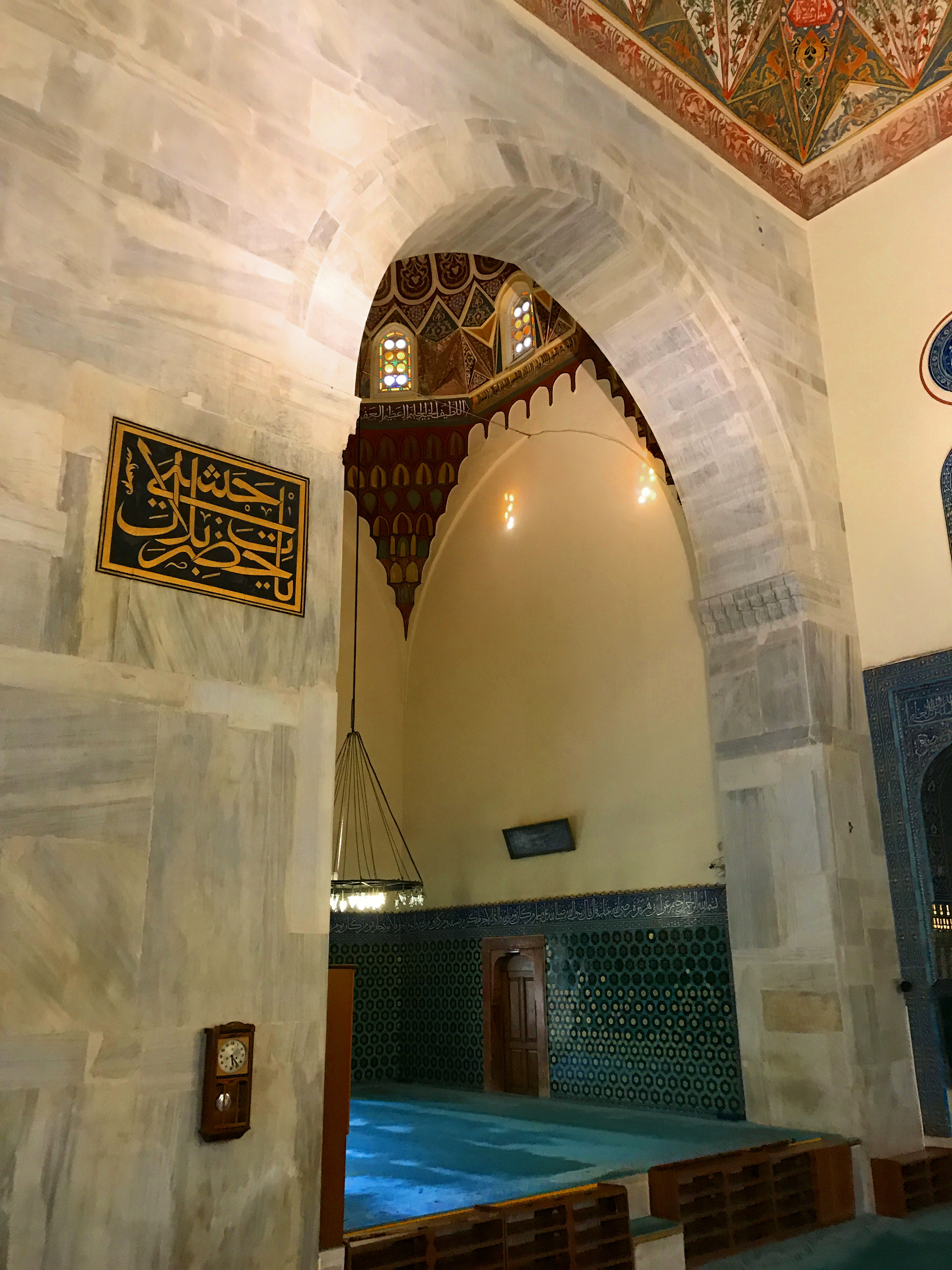 Green Mosque of Bursa, Turkey, 2017. Green Mosque (Turkish: Yeşil Camii, "Yeşil Mosque"), also known as Mosque of Sultan Mehmed I, is a part of the larger complex (a külliye) located on the east side of Bursa, Turkey, the former capital of the Ottoman Turks before they captured Constantinople in 1453. The complex consists of a mosque, türbe, madrasah, kitchen and bath.